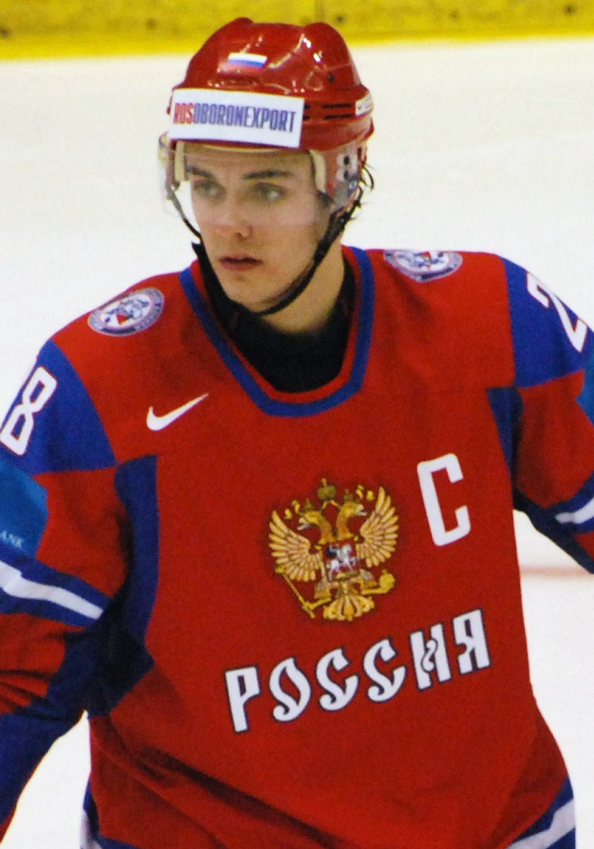 Nikita Filatov during a game at the 2010 World Junior Hockey Championships.